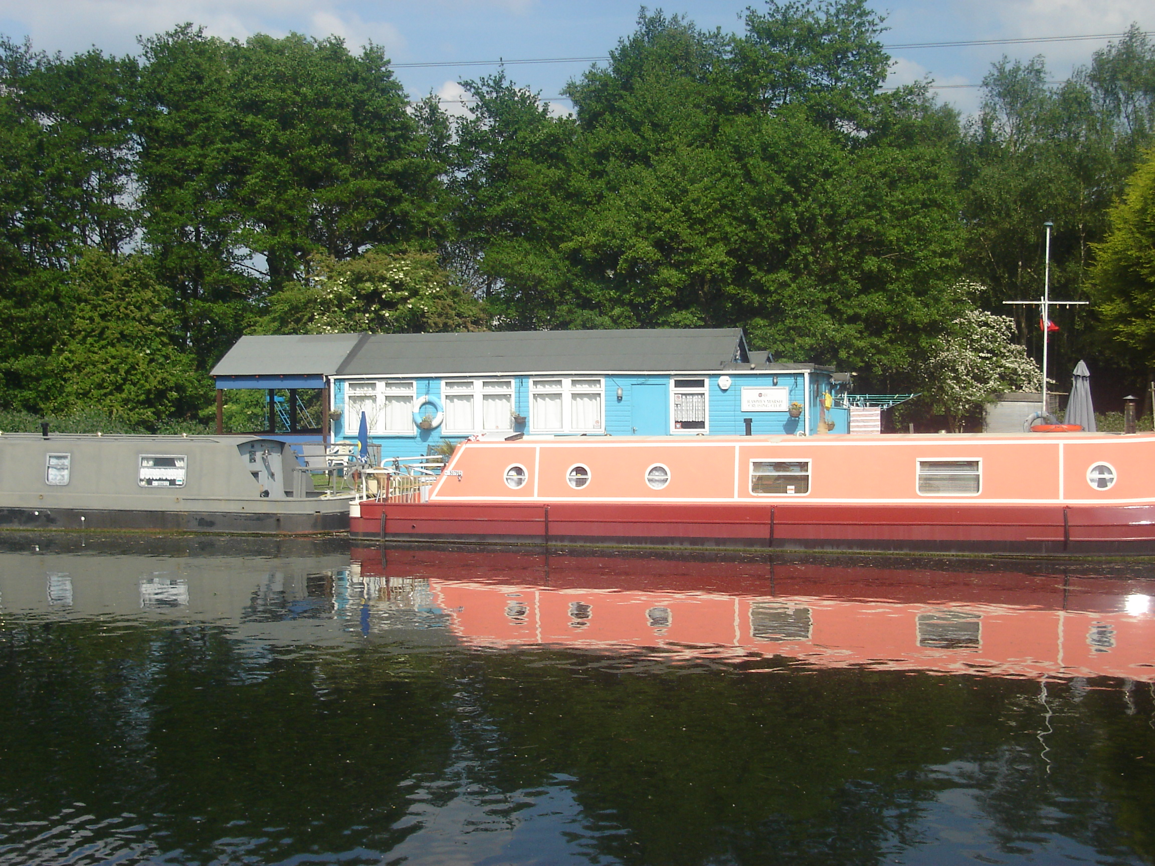 Picture of the Rammey Marsh Cruising Club close to the Rammey Marsh Lock, Enfield